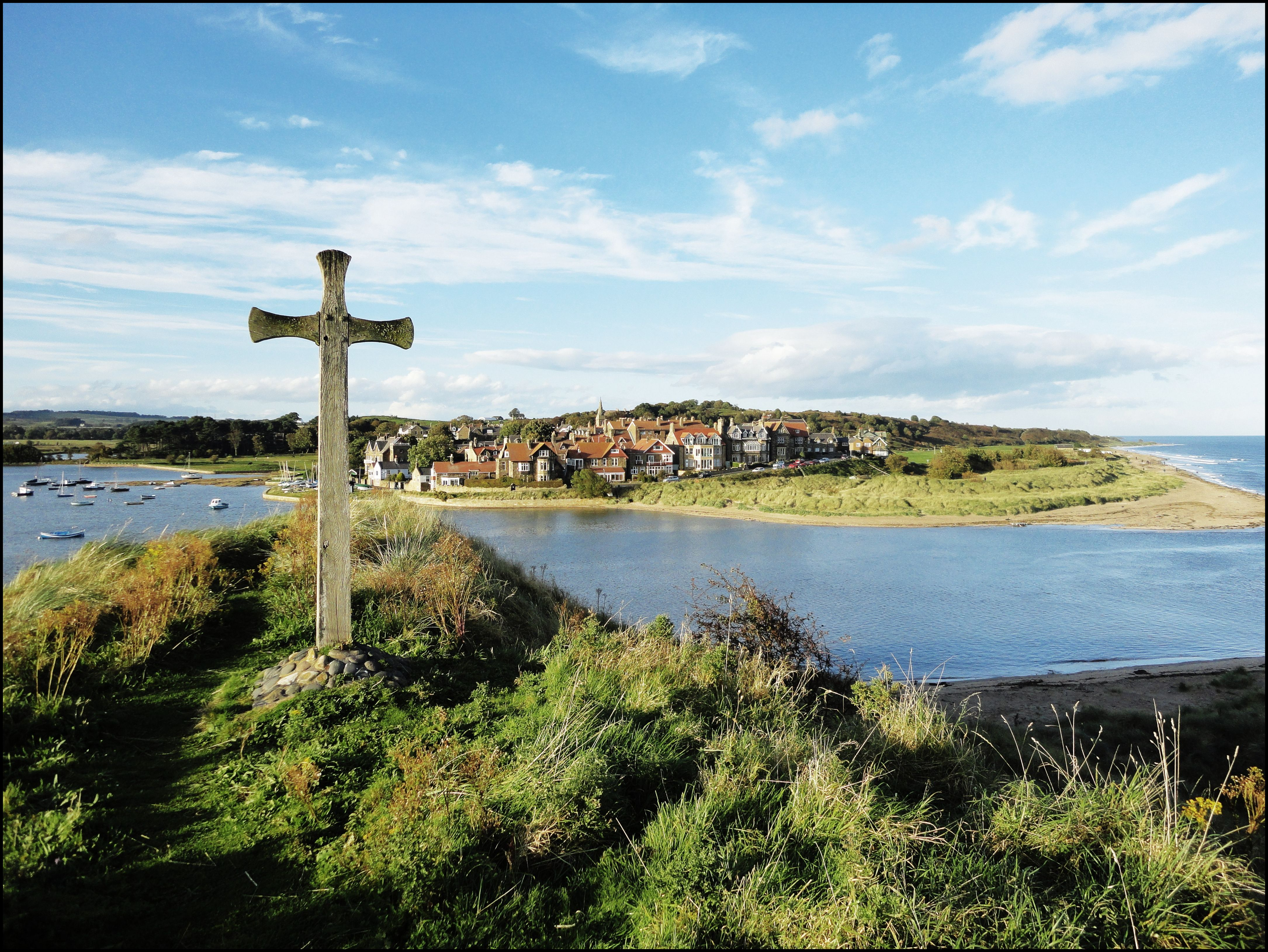 Alnmouth, Northumberland ... the last of summer, probably.